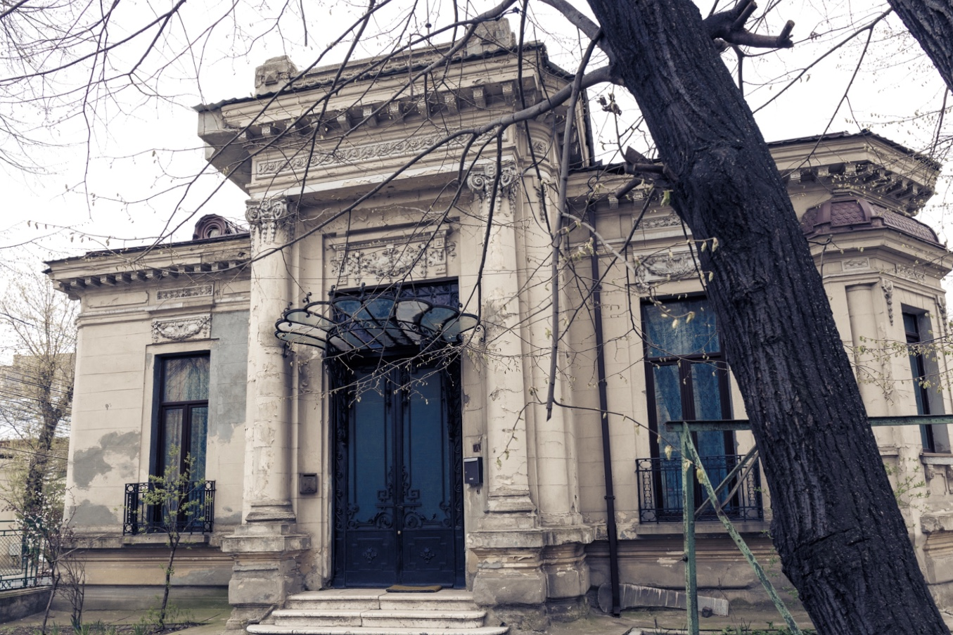 5, Strada Sfântul Ștefan, Bucharest (Romania)